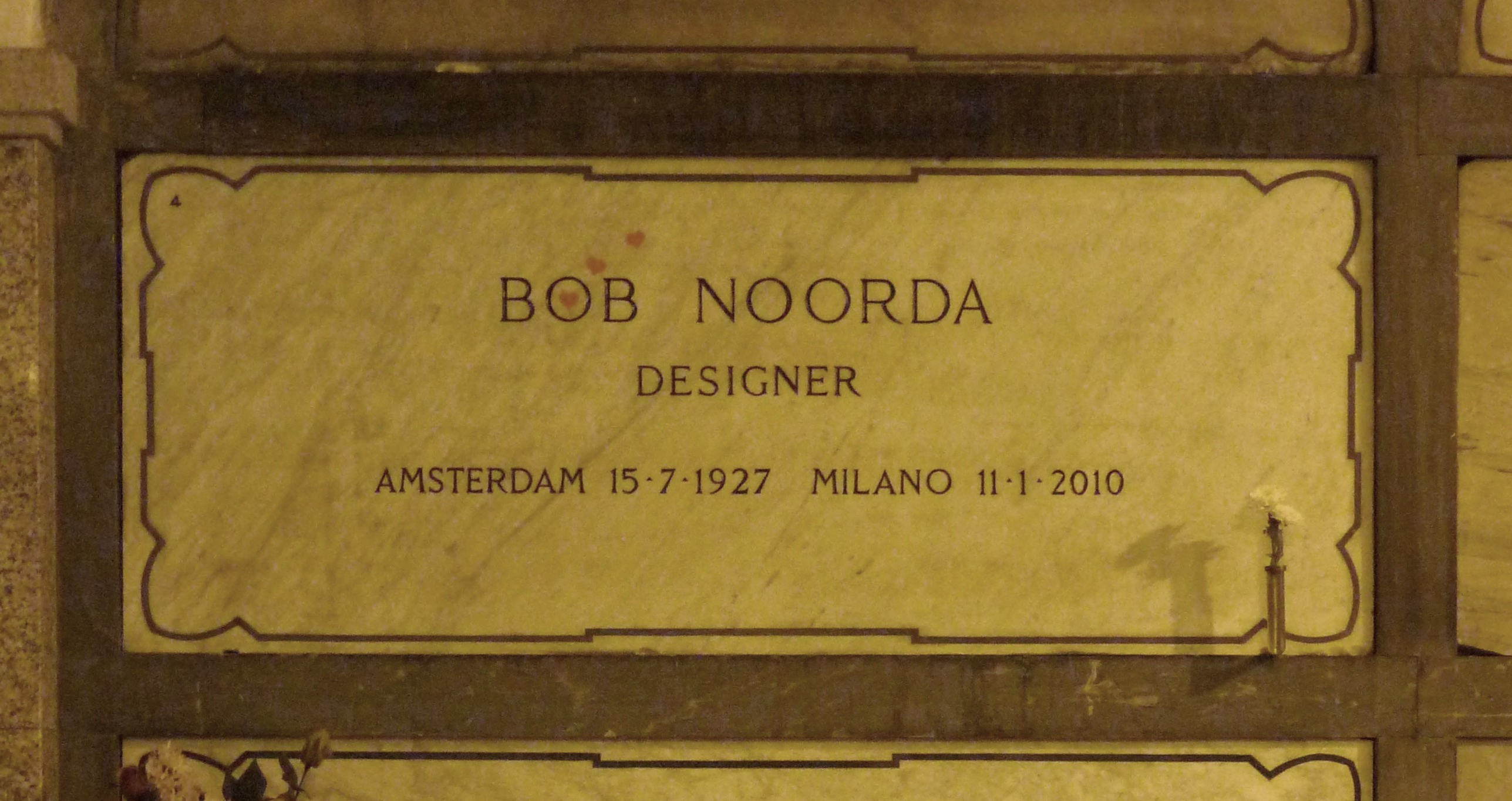 The grave of Dutch designer Bob Noorda at the Monumental Cemetery of Milan, Italy.